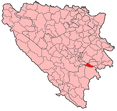 Location of Foča-Ustikolina municipality in Bosnia and Herzegovina.